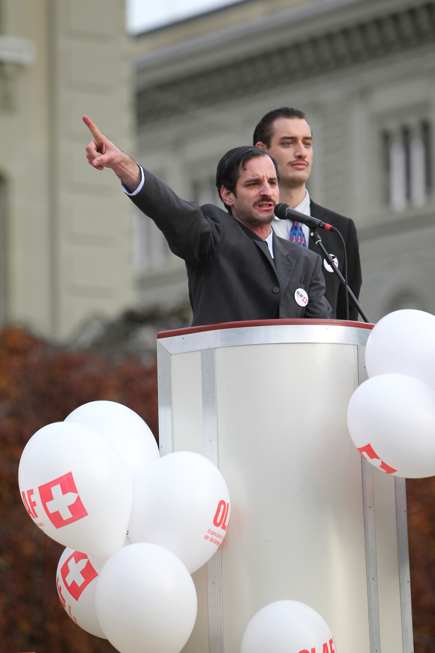 Stocher's State of the Nation speech during the "National Collection Day for Foreigners" on the federal square in Bern.